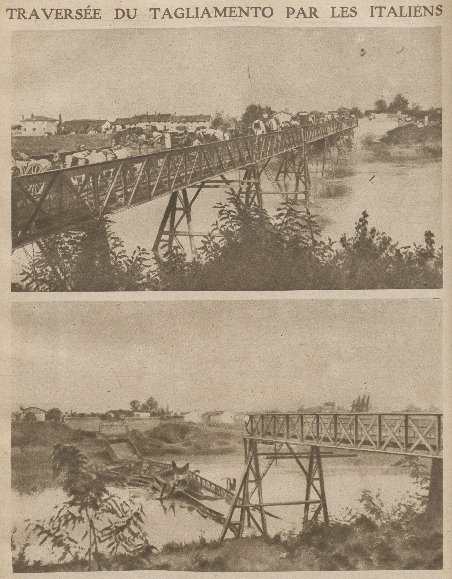 Italian retreat on the Tagliamento after the Battle of Caporetto. Above : Crossing the river Tagliamento. Bottom : the bridge over the river destroyed by the Italian army after the passage of the last people. Documents published by the weekly Le Miroir December 16, 1917.